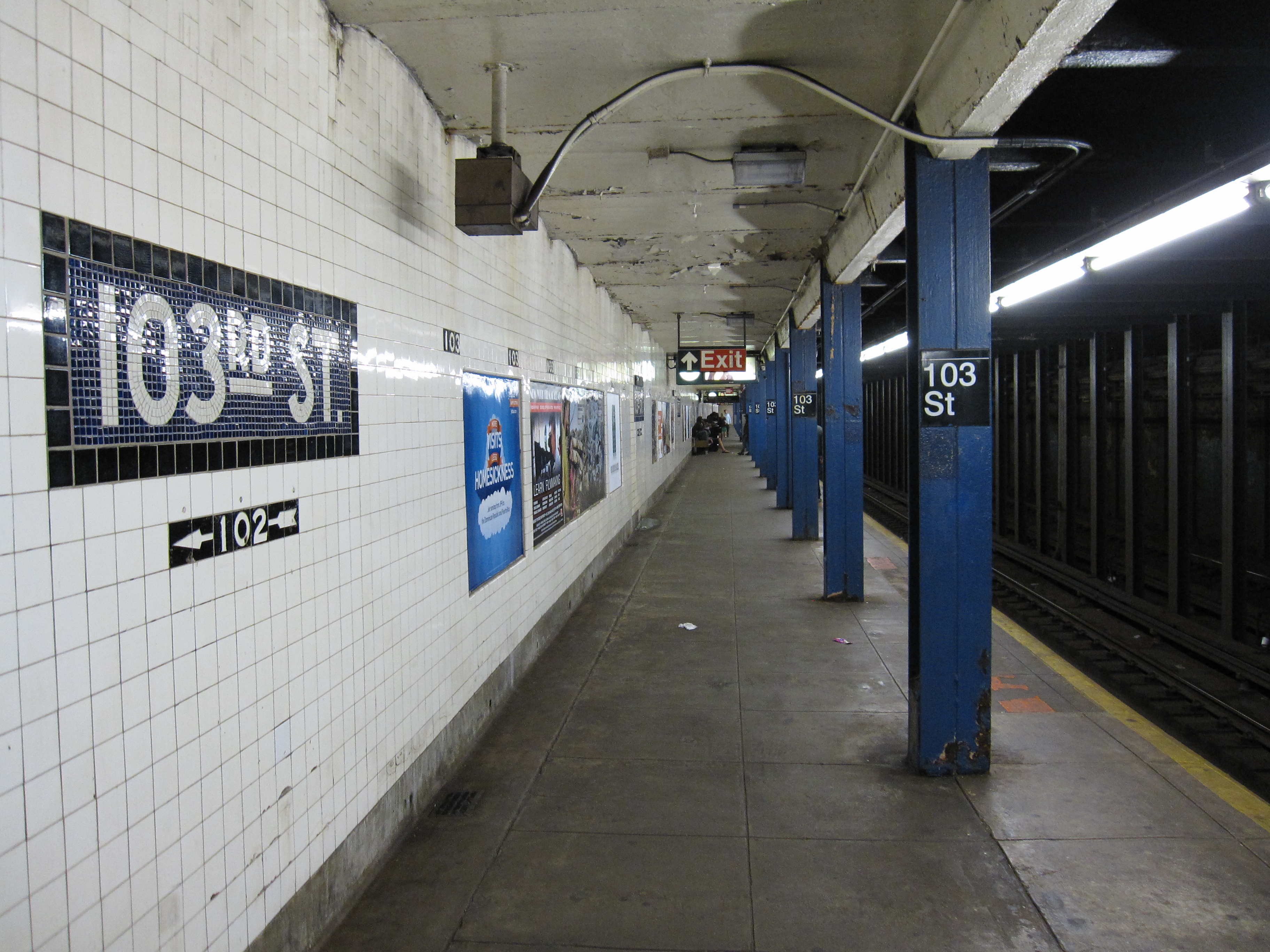 103rd Street (IND Eighth Avenue Line)